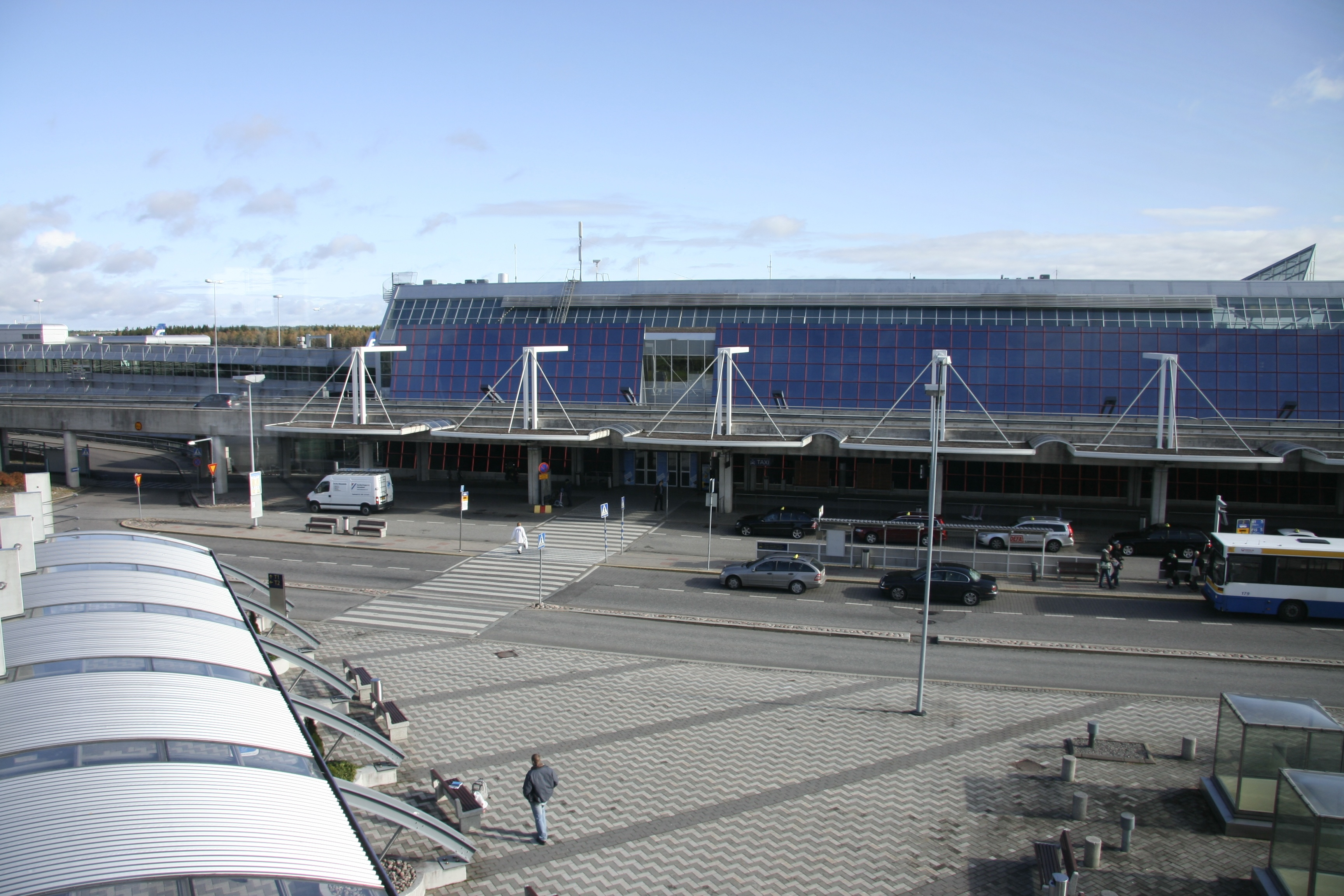 Terminal 1 (former domestic terminal) of Helsinki-Vantaa Airport seen from the Indoor car park P3